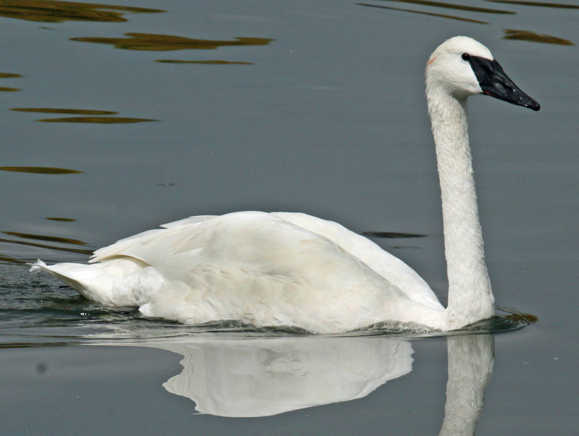 Trumpeter Swan (Cygnus buccinator) at Jackson Hole, Wyoming